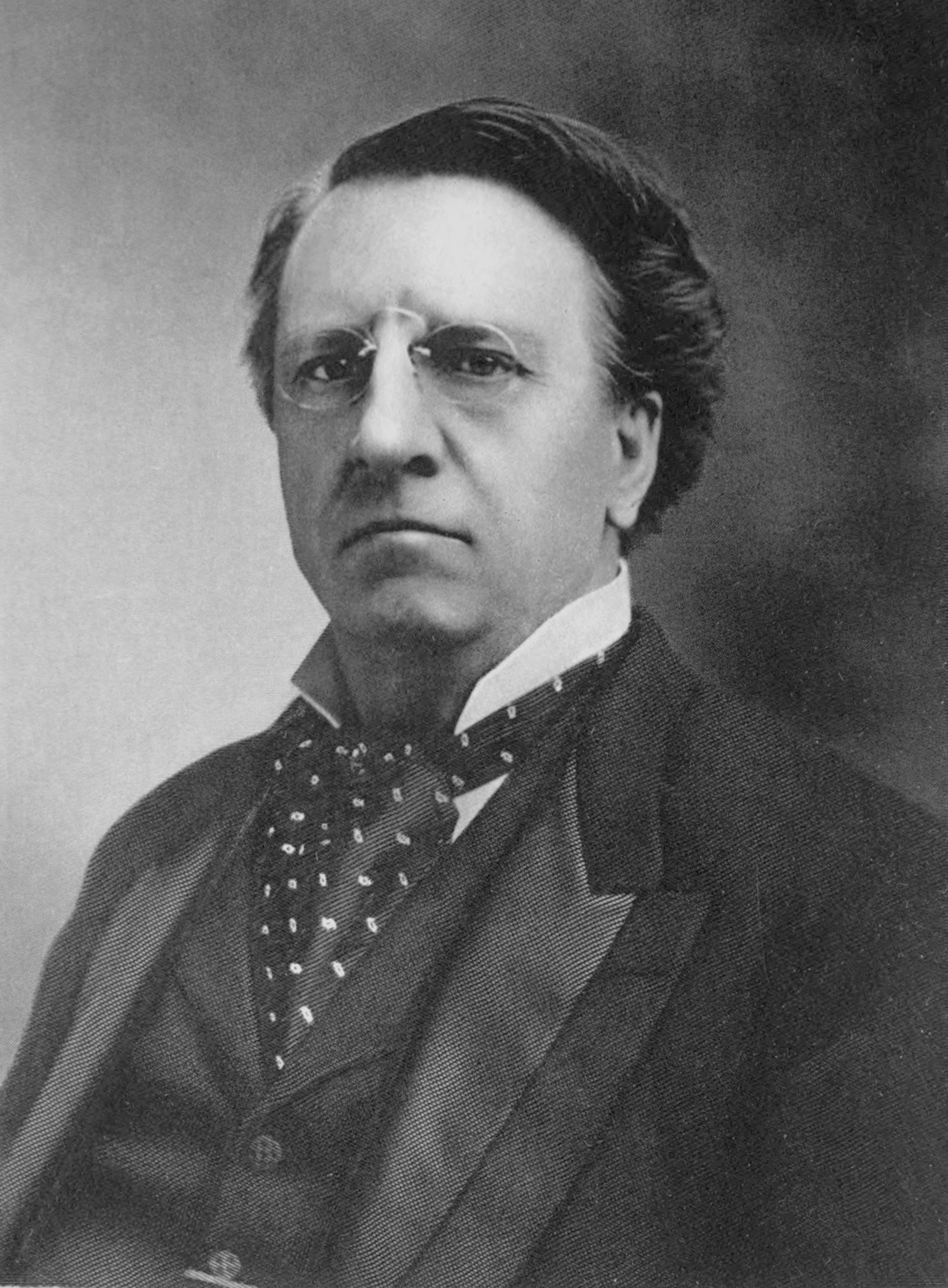 Portrait of John Coit Spooner